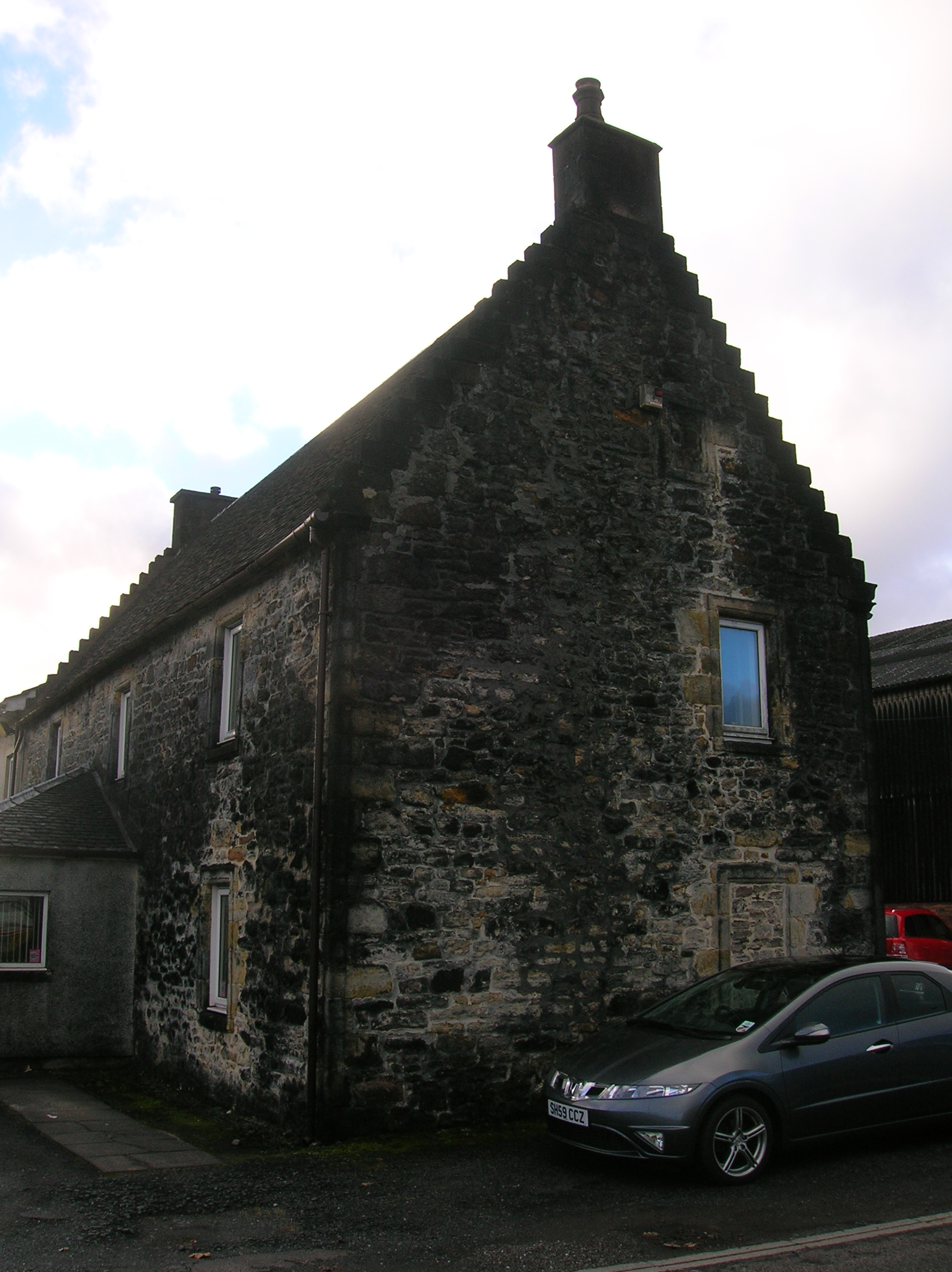 Willowyard House, gable end. Beith, North Ayrshire, Scotland.